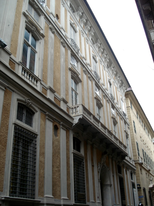 Gio Battista Spinola Palace in Genova